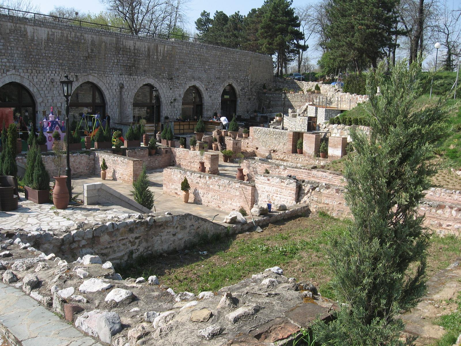 Old conservated roman ruins which now works as bars in Niš fortress, Serbia.